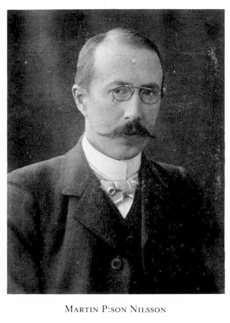 Swedish professor of ancient history martin P:son Nilsson.